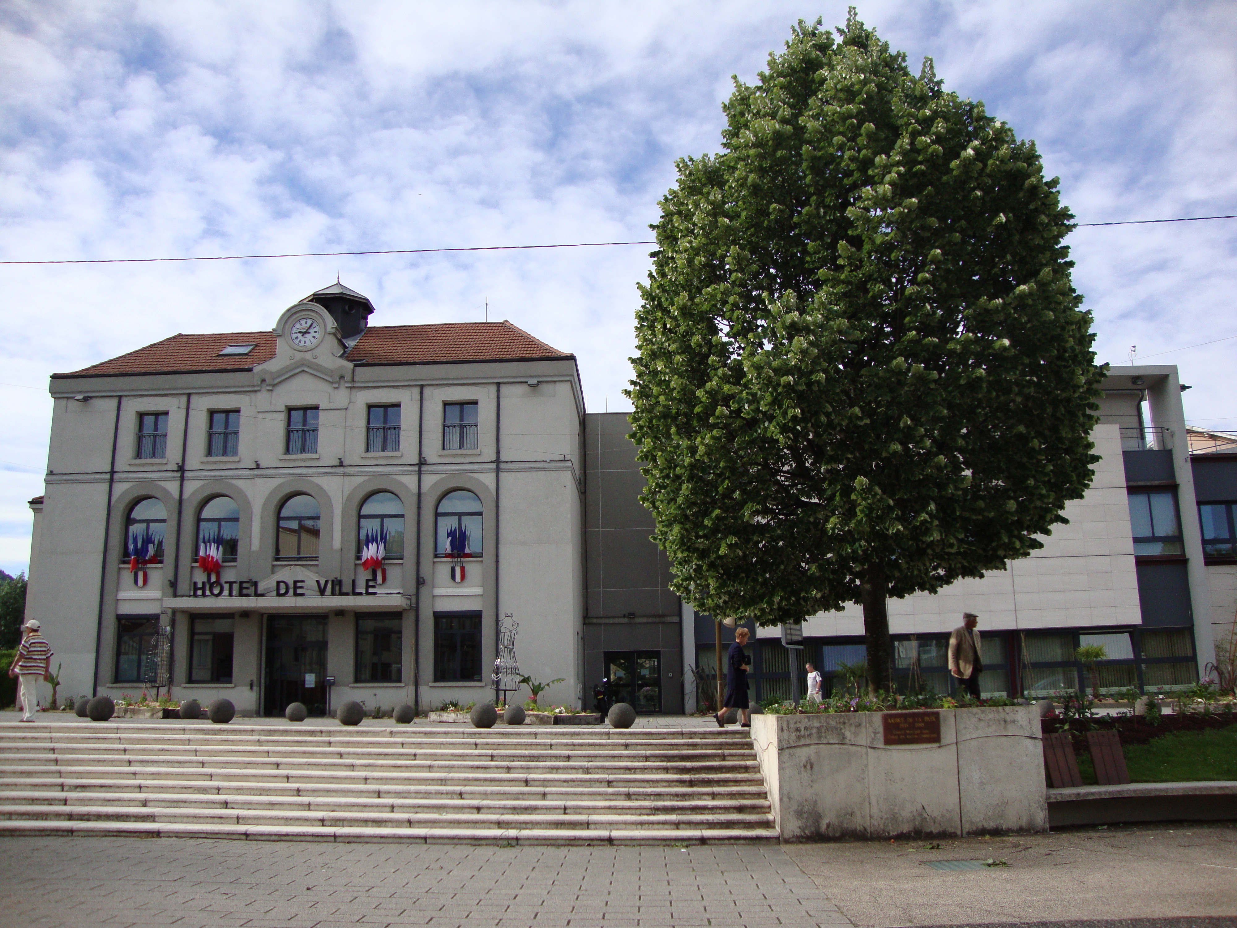 Le Chambon-Feugerolles (Loire, Fr) town hall